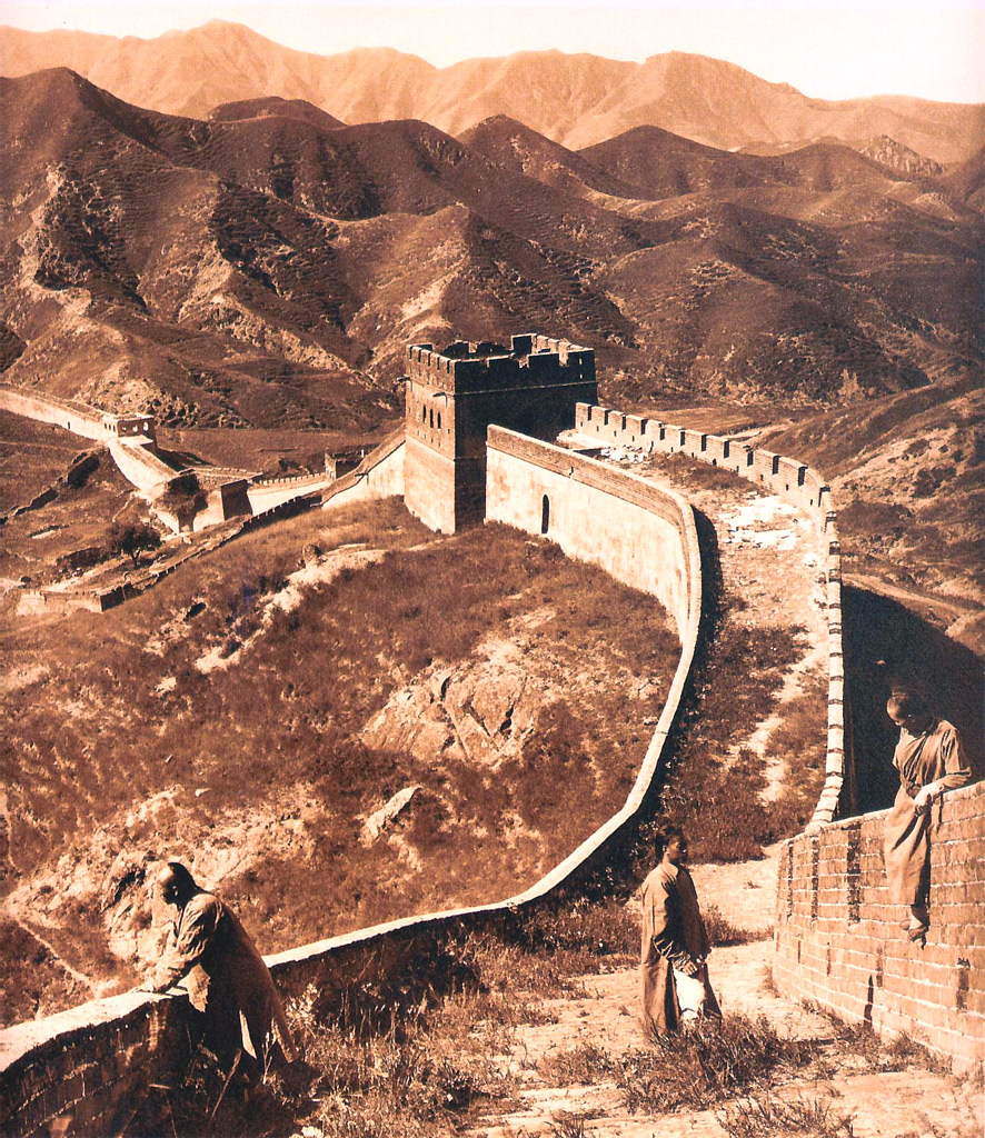 The Great Wall of China, in 1907, as photographed by Herbert Ponting (1870-1935). and re-encoded, color corrected, resized and sharpened by me Zanaq. I hereby release this particular encode under the Wikipedia:Text of the GNU Free Documentation License